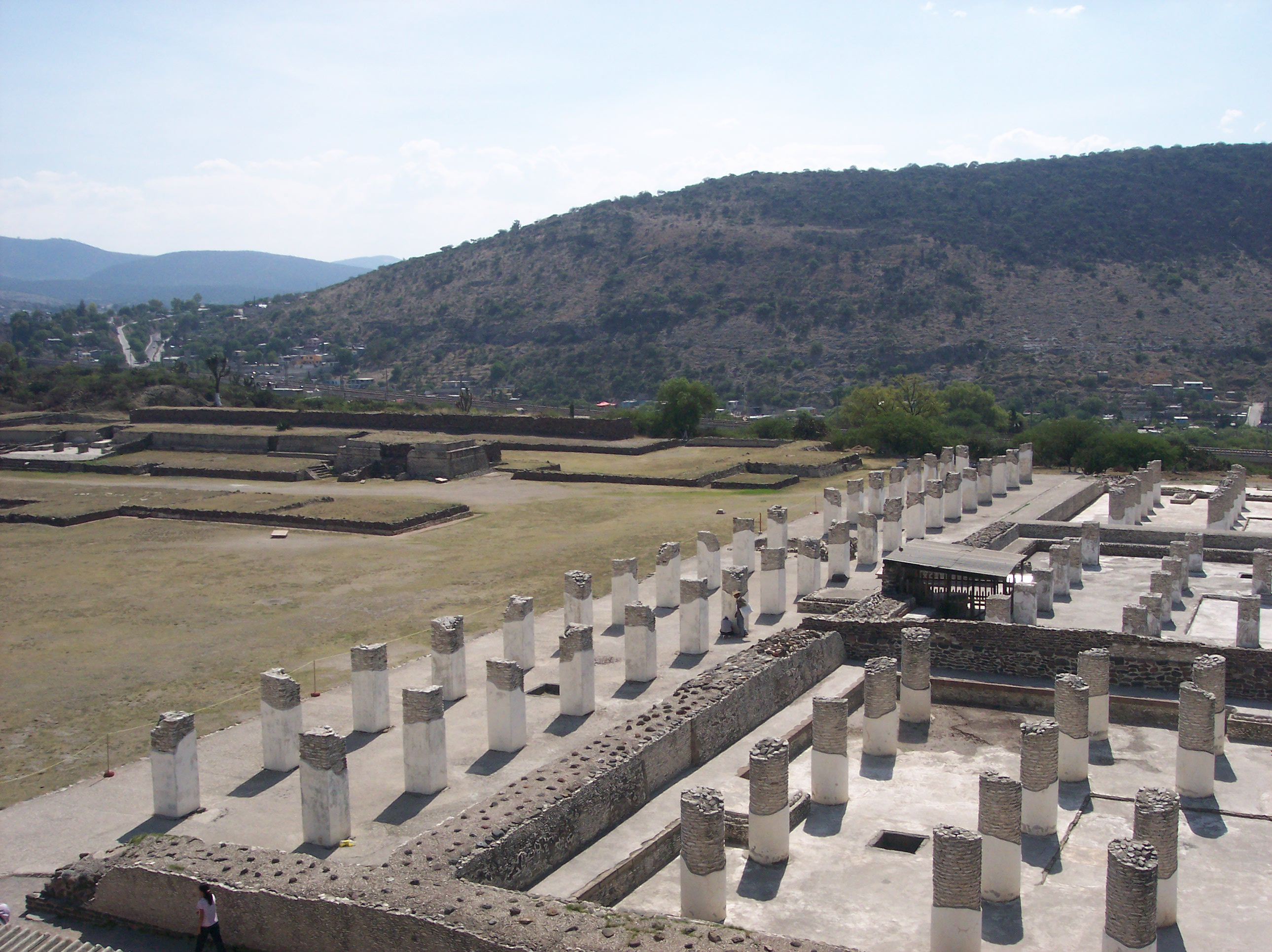 Photograph from the ancient mexican place Tollan-Xicocotitlan. Now an archeological site.